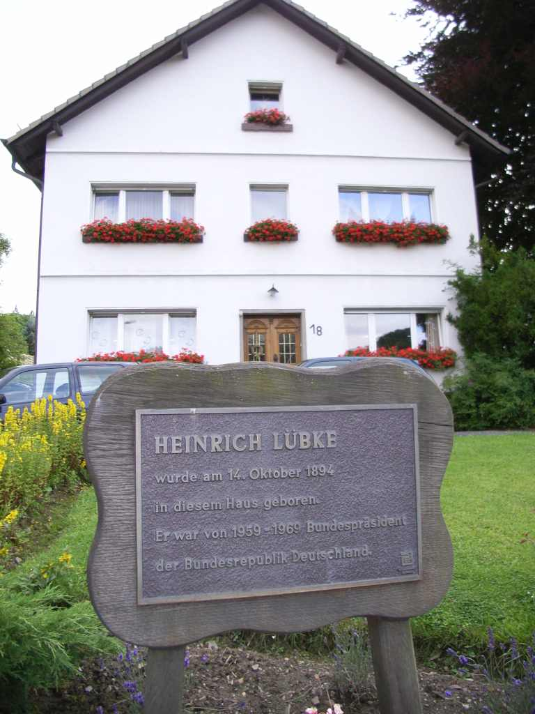 Birth Place of Heinrich Lübke (President of the Federal republik of Germany) Sundern-Enkhausen